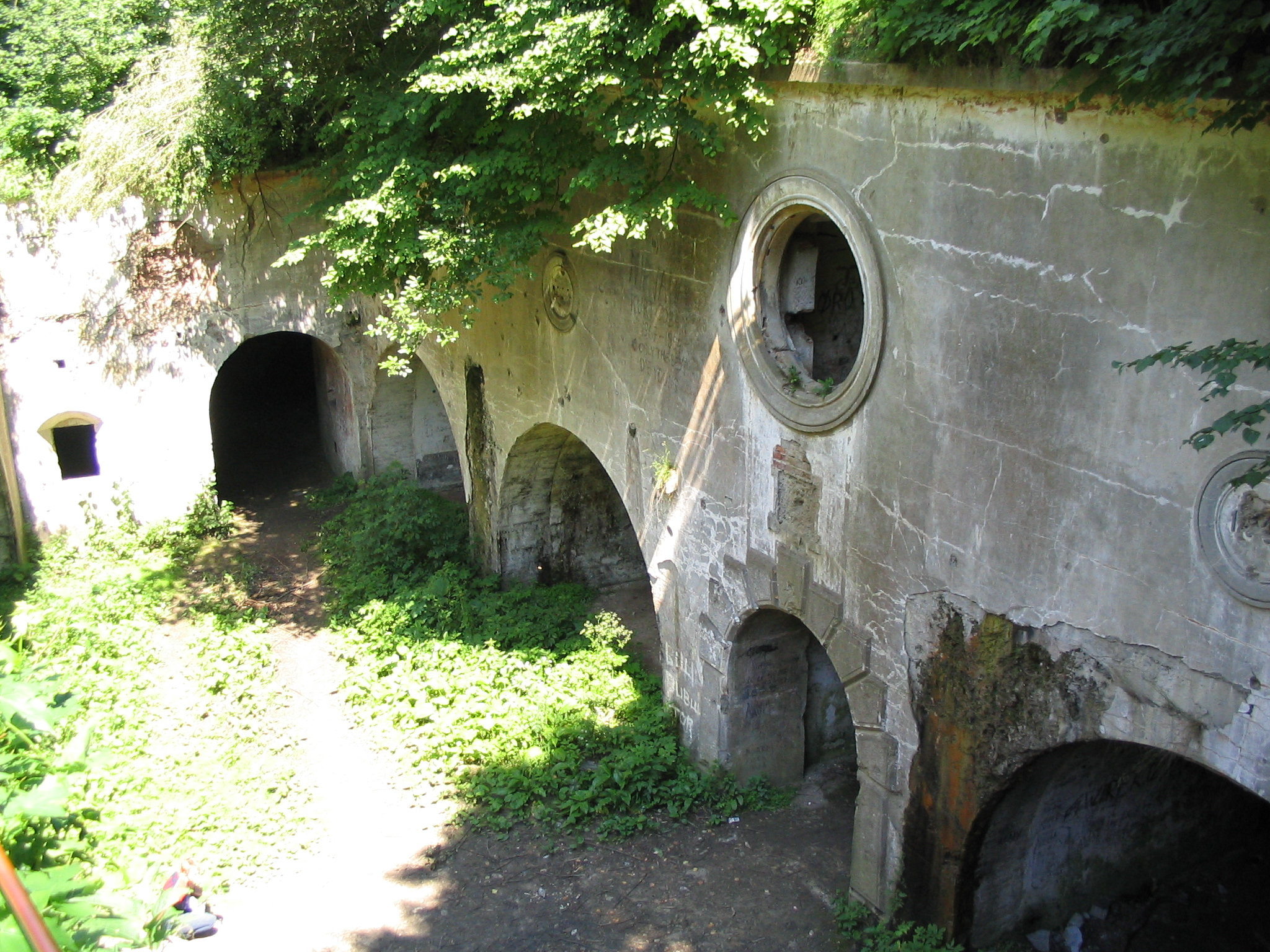 Fort I "Salis Soglio" Author: Goku122